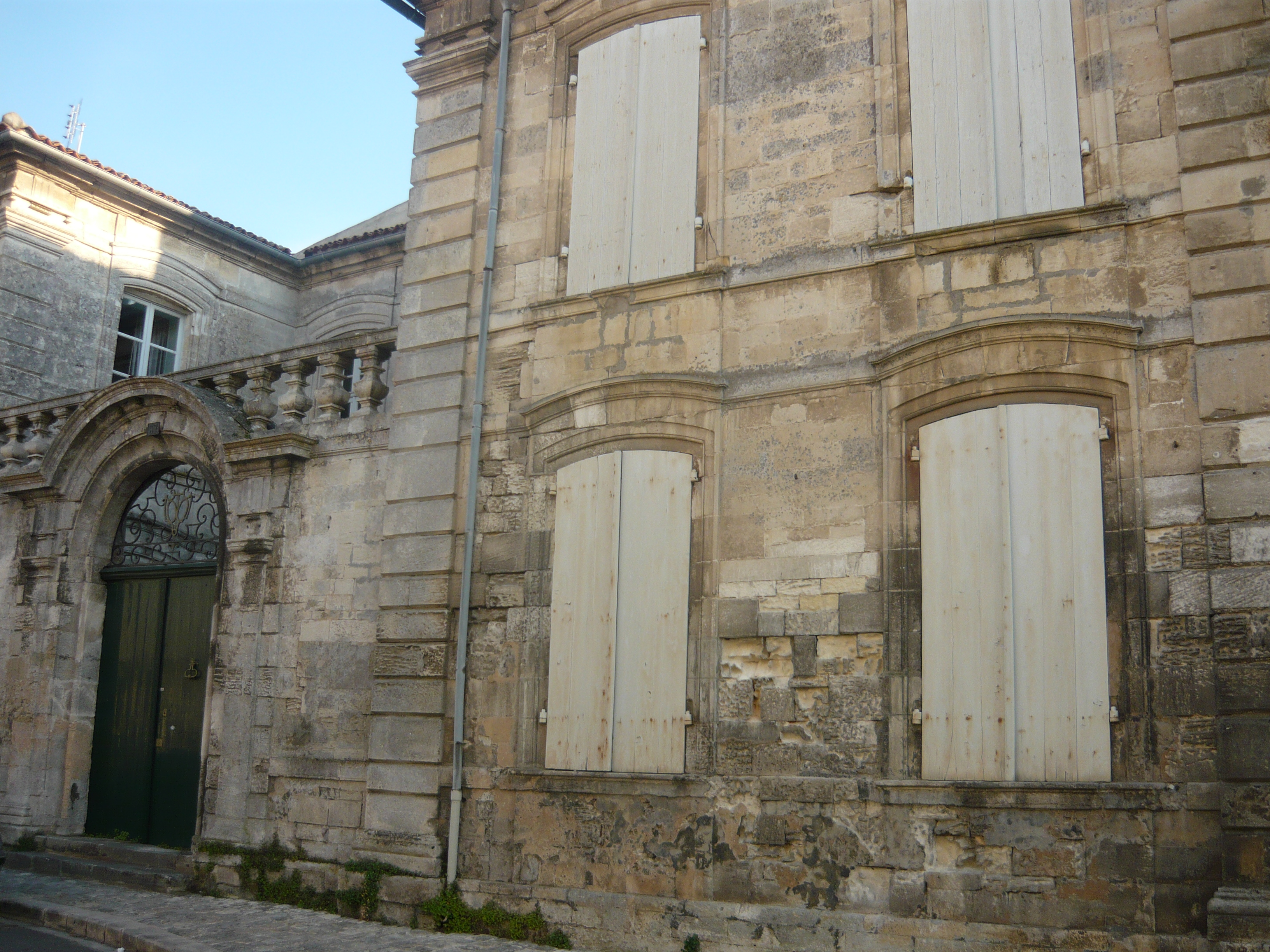 L'hôtel Bonsonge au 57, rue de la République à Marennes (17) date de 1760.